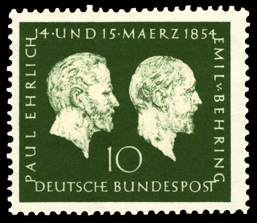 100th day of birth from Paul Ehrlich (1854-1915) and Emil Adolf von Behring (1854-1917) Graphics by Boehland Ausgabepreis: 10 Pfennig First Day of Issue / Erstausgabetag: 13. März 1954 Michel-Katalog-Nr: 197